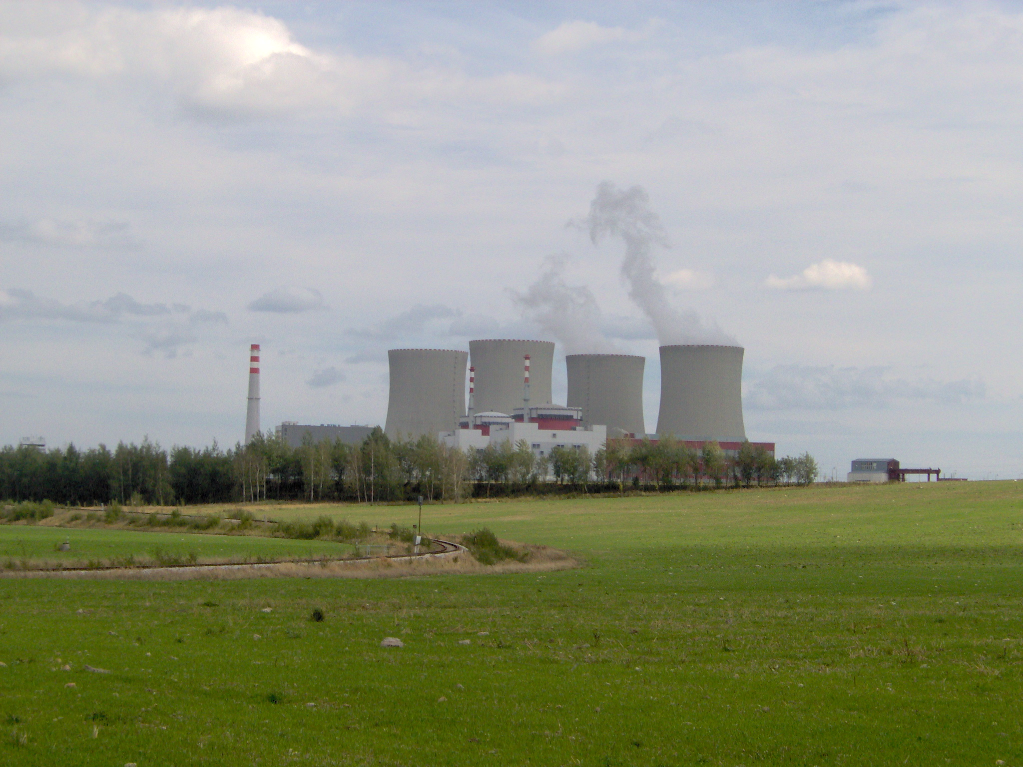 View of Temelín Nuclear Power Station.